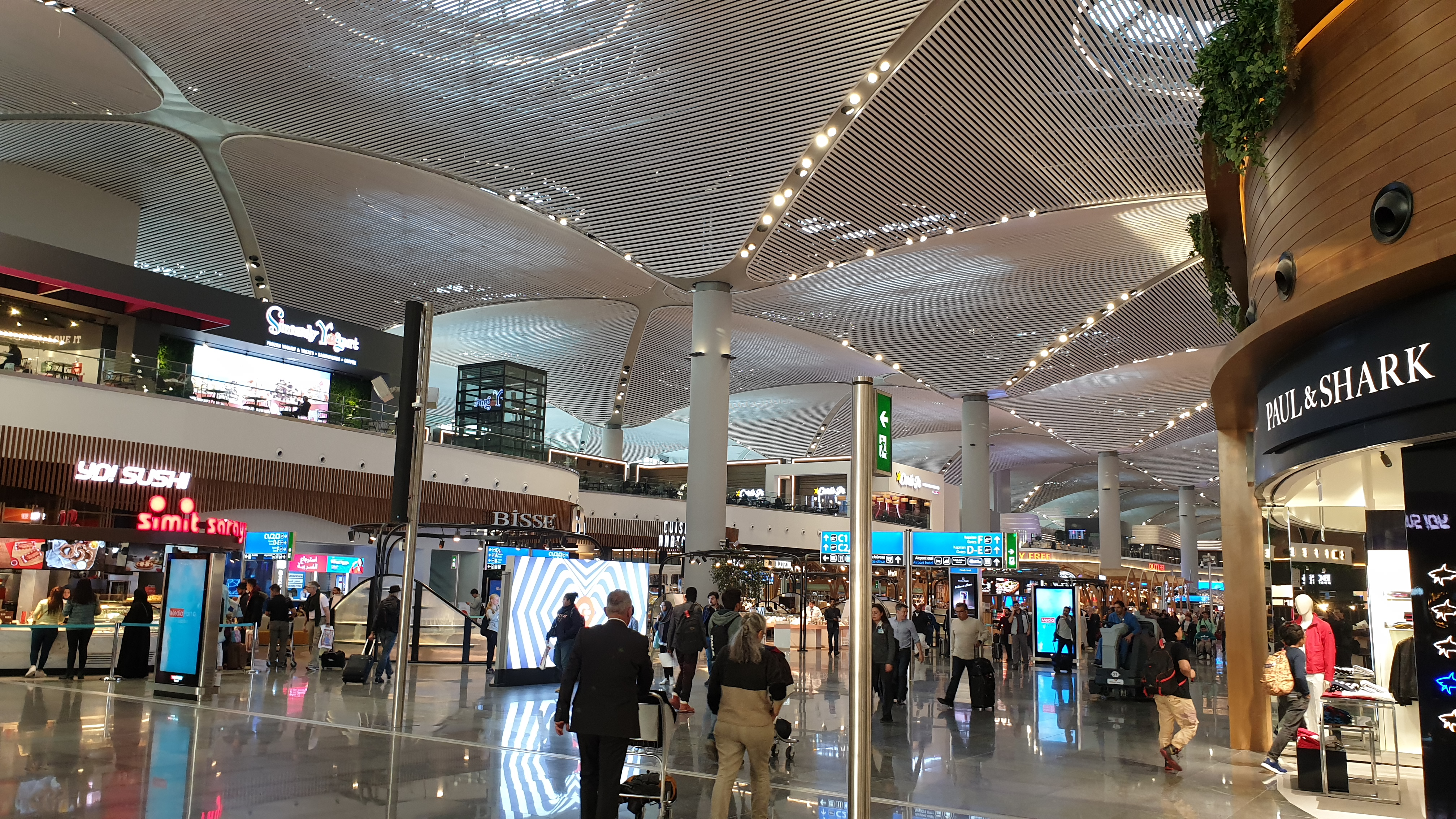 Istanbul Airport (Abril 2019)